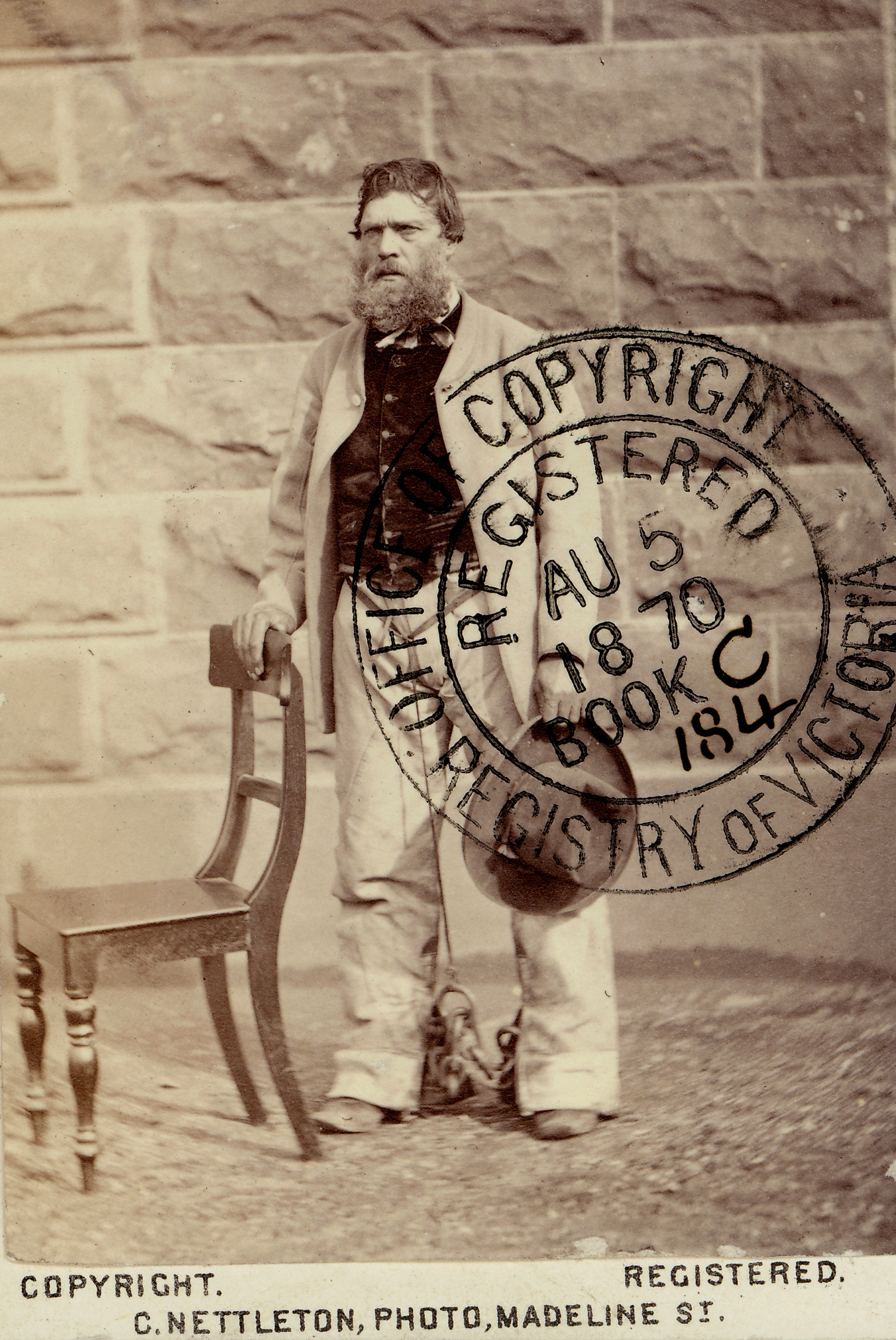 Australian bushranger, Harry Power. Note copyright on this photograph has expired and copyright stamp on photo can therefore be ignored.